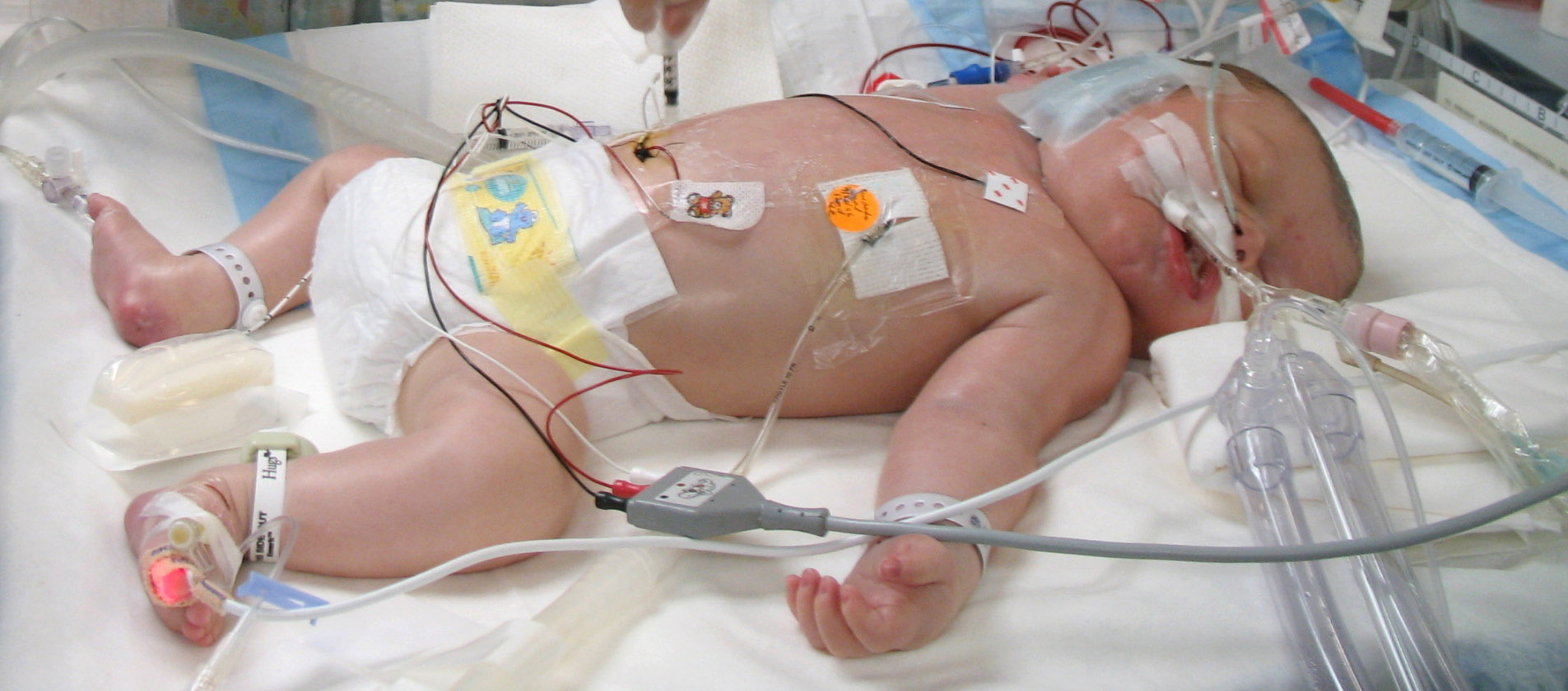 Respiratory therapist Michelle Sirra takes a blood sample from a 3-day-old patient in preparation for transfer to an Extracorporeal Membrane Oxygenation unit on Friday, July 21, in San Juan, Puerto Rico. An ECMO team comprised Air Force and Army medical specialists from the Wilford Hall Medical Center at Lackland Air Force Base, Texas, flew to Puerto Rico to transport Stuart to San Antonio for more advanced care. Ms. Sirra is a respiratory therapist in the neonatal intensive care unit at the Hospital Auxilio Mutuo in San Juan. (U.S. Air Force photo/Staff Sgt. Matthew Rosine)